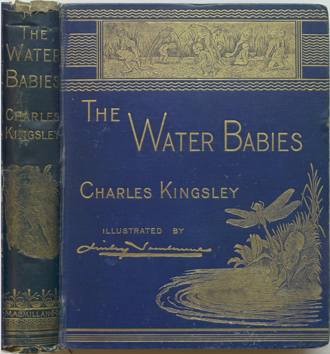 1885 cover of The Water-Babies: A Fairy Tale for a Land-Baby by Charles Kingsley